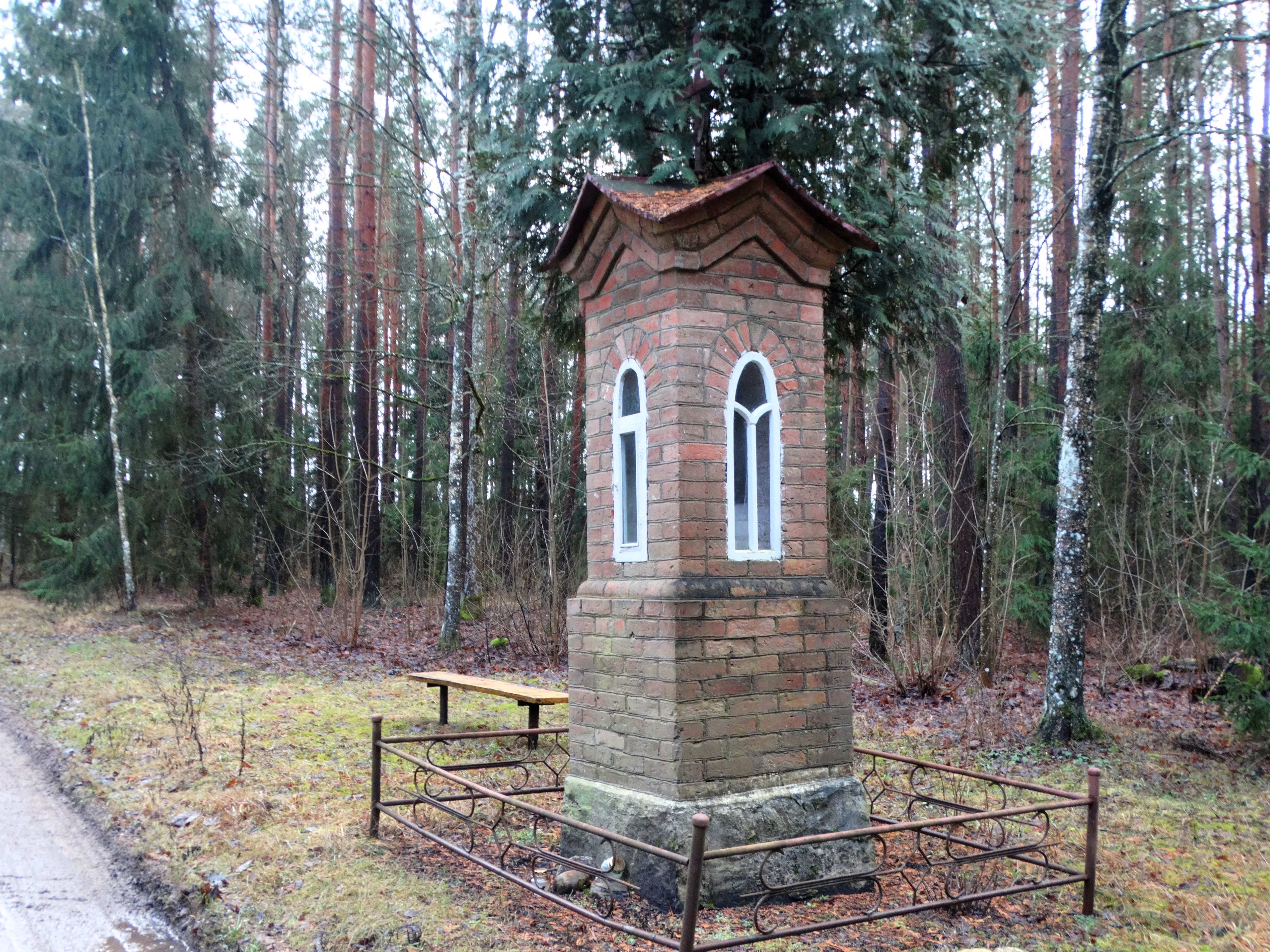 Kaušanka, Jonava District, Lithuania